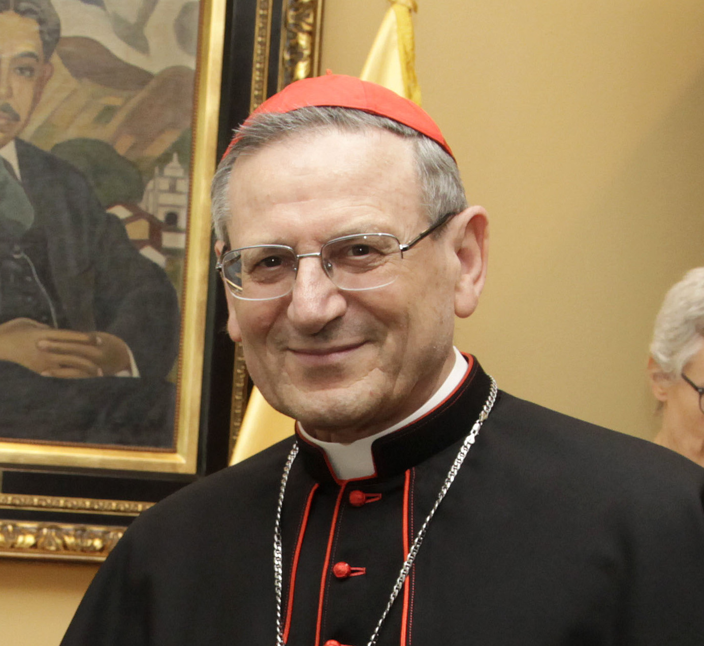 Salvador Sanchez Ceren recibe en su despacho a Cardenal Angelo Amato.